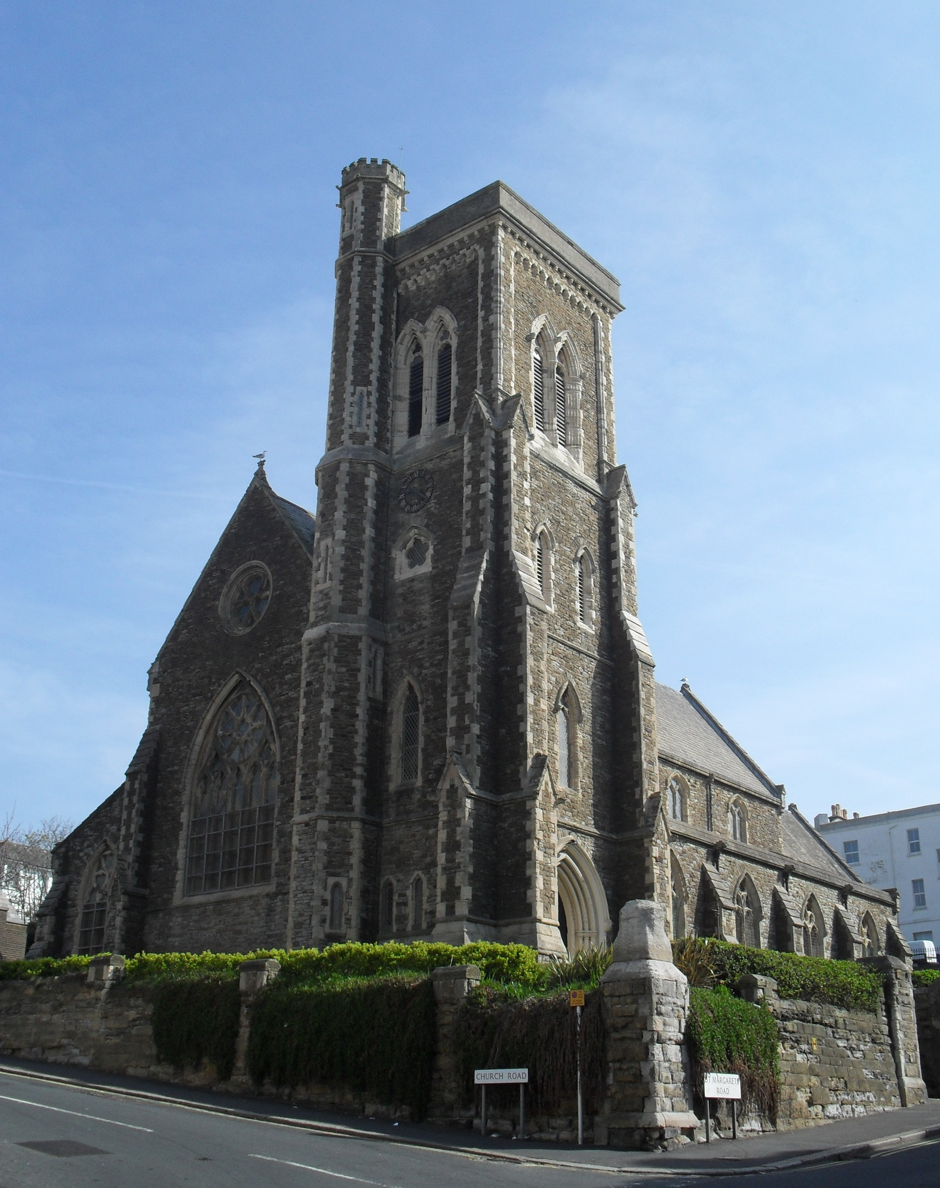 Greek Orthodox church of St Mary Magdalen, St Margaret's Road, Hastings, East Sussex, seen from the southwest. Designed by Frederick Marrable and built in 1852 as the Church of England parish church of St Margaret. Bought by the Greek Orthodox community in 1982.